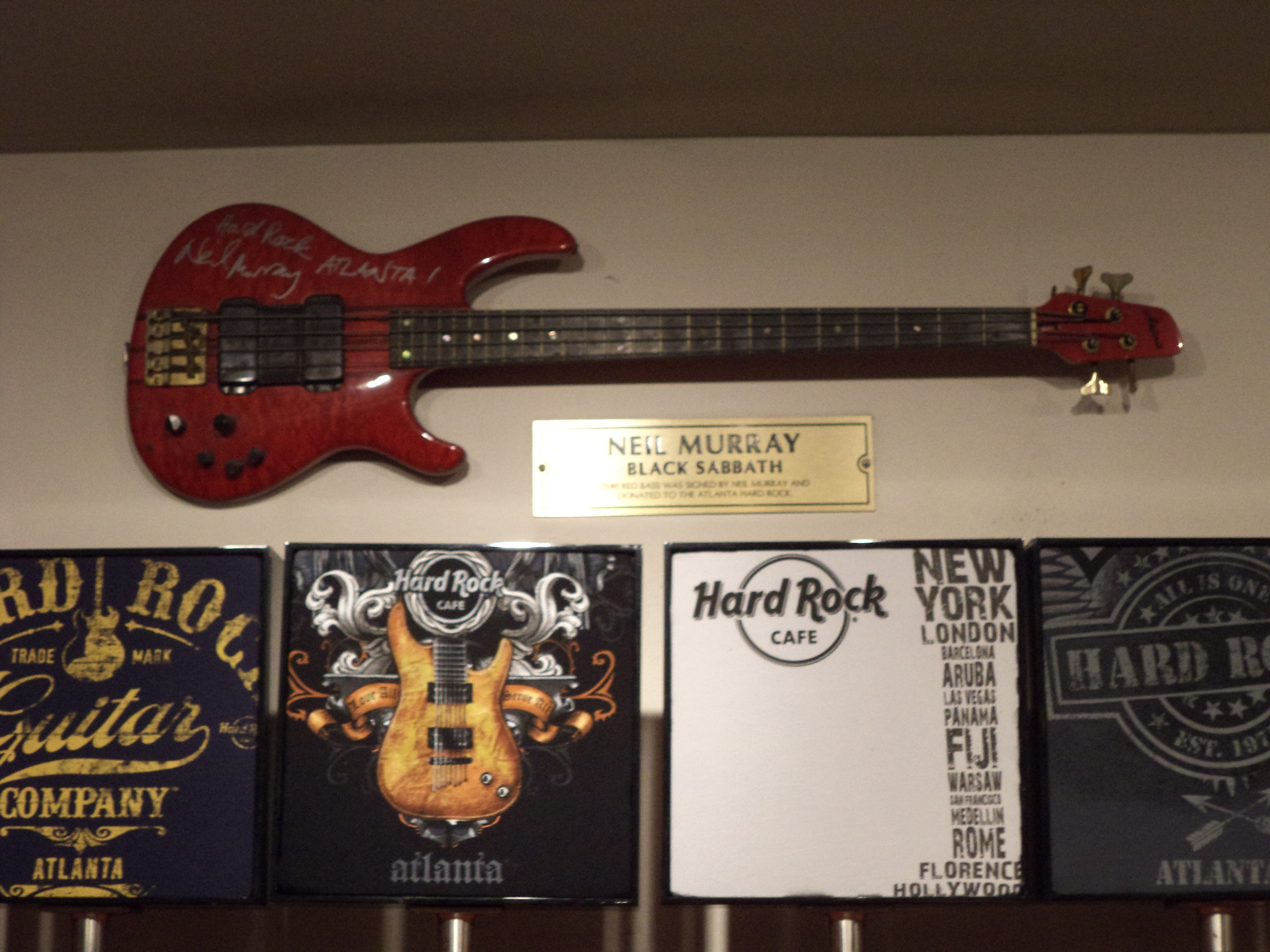 Hard Rock Cafe, Atlanta, Fulton County, Georgia